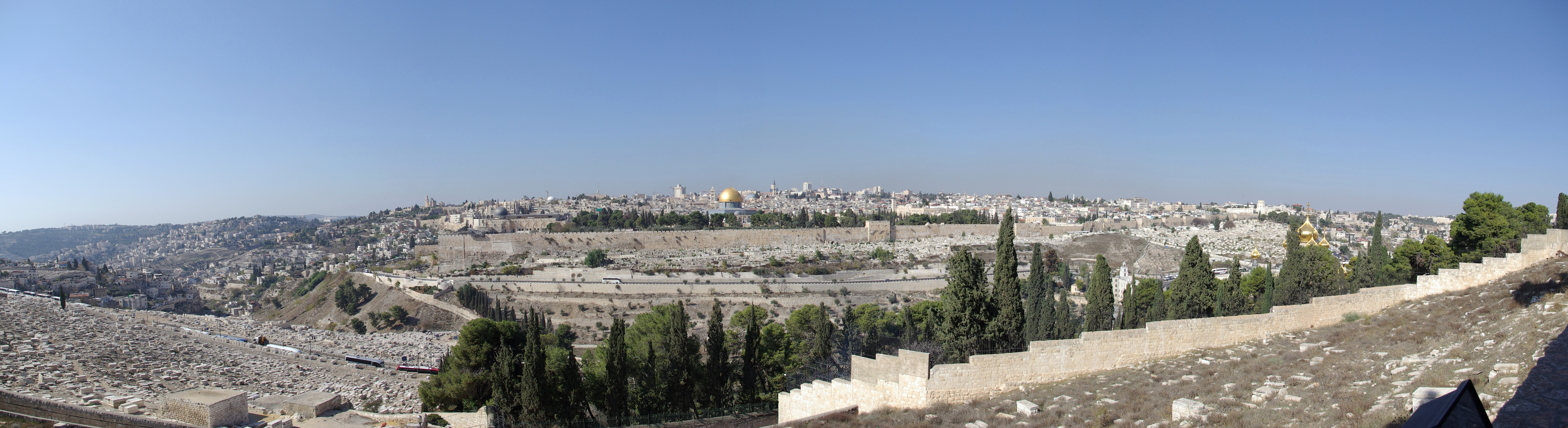 Panorama of Jerusalem from the Mount of Olives. Made of four photographs, using Microsofts ICE 1.0.